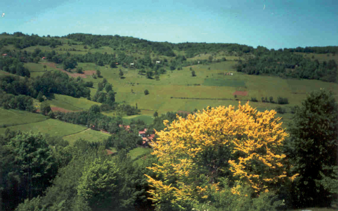 Unique example of Mesian beech with golden-yellow leaves (Fagus moesiaca (K. Maly) Czecz. var. aurea serbica Tošić). It is located near Kotor Varos, a small town in Republika Srpska. It is first dendrological Natural monument in Republika Srpska. (Photo M. Tosic)